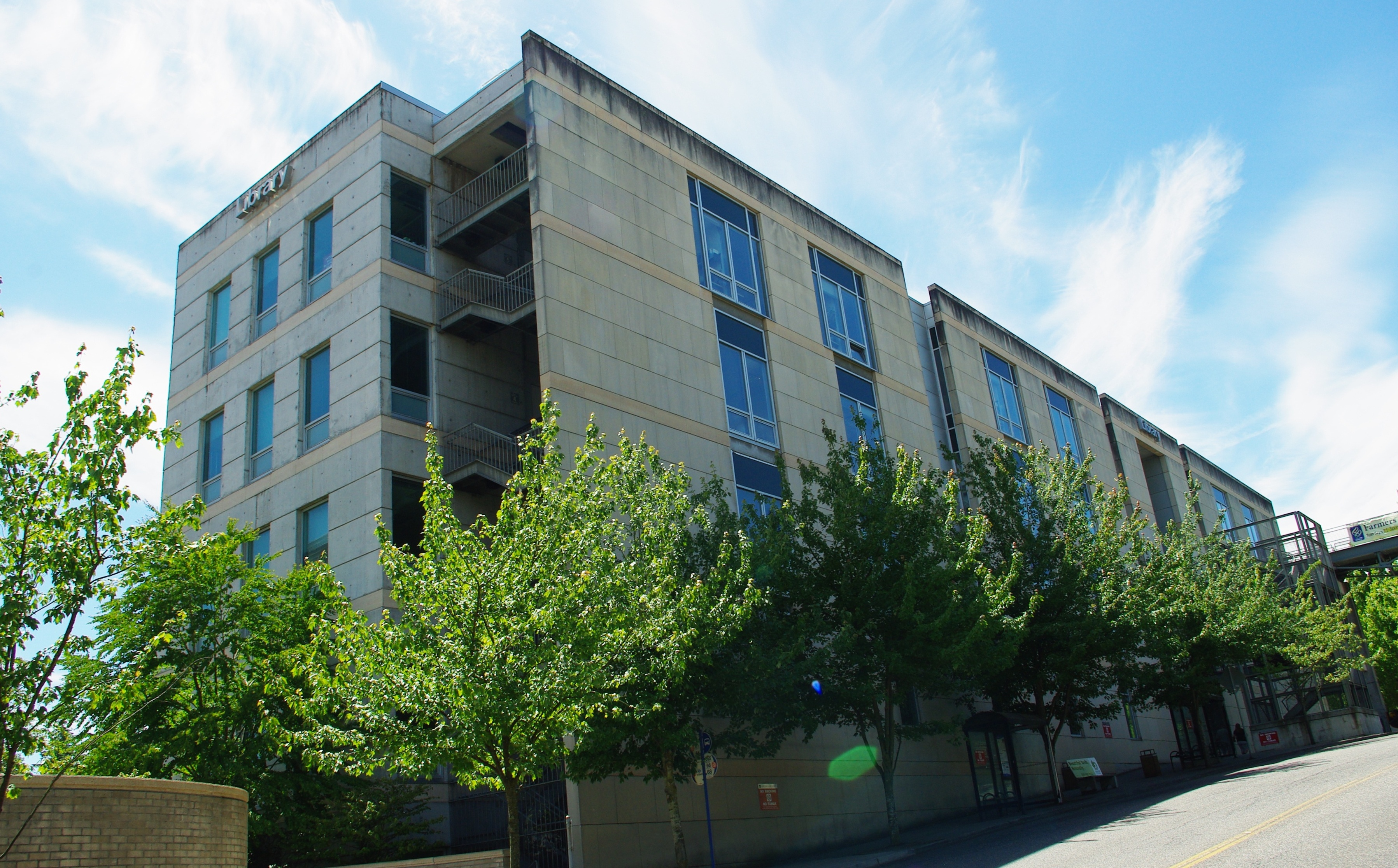 Library at Oregon Health & Science University, in Portland, Oregon.